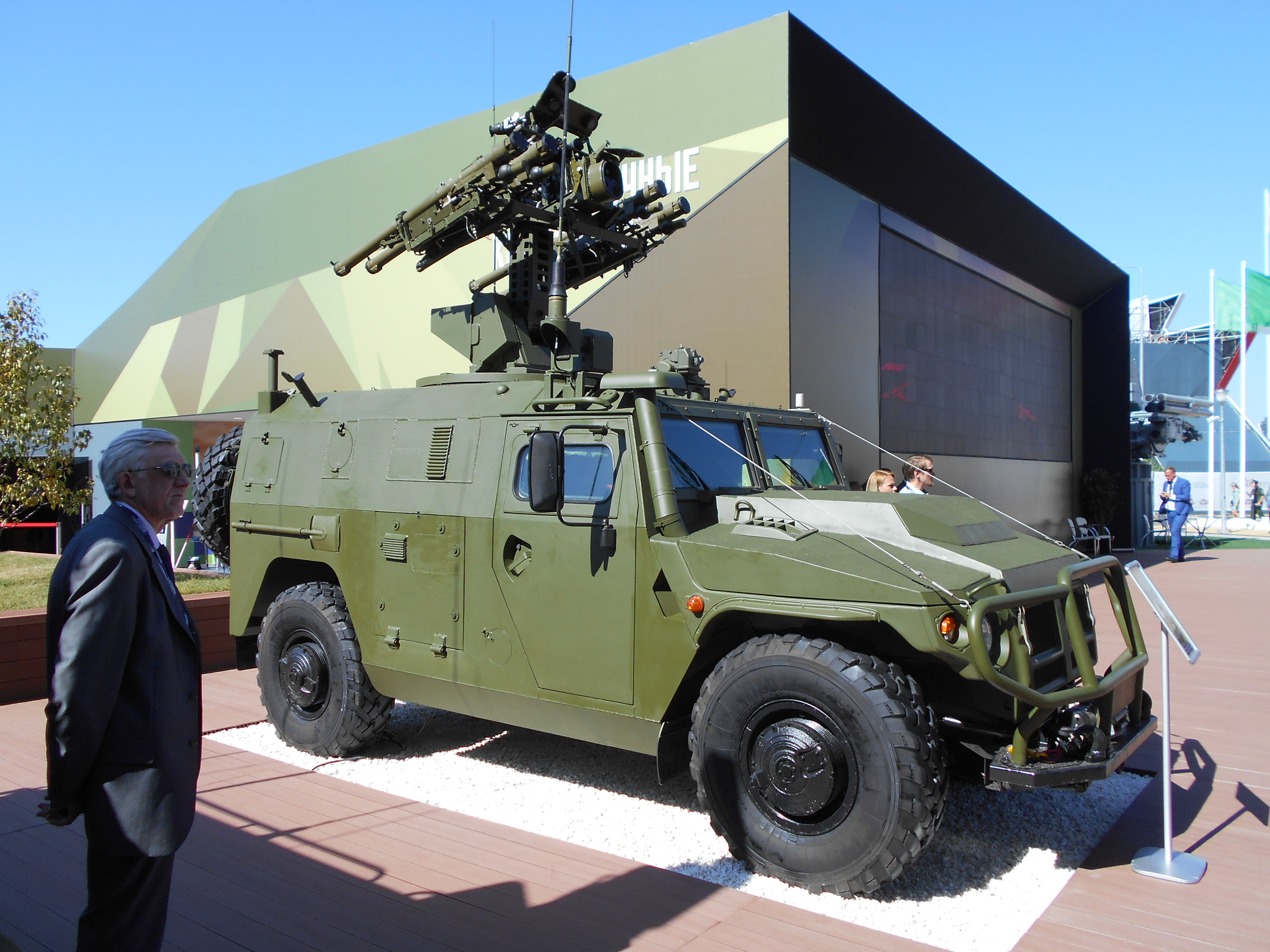 Gibka-S anti-aircraft rocket system.